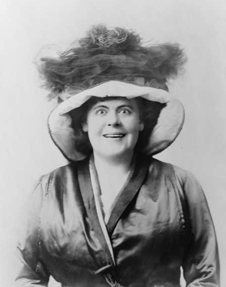 Marie Dressler, head-and-shoulders portrait, facing front, wearing hat